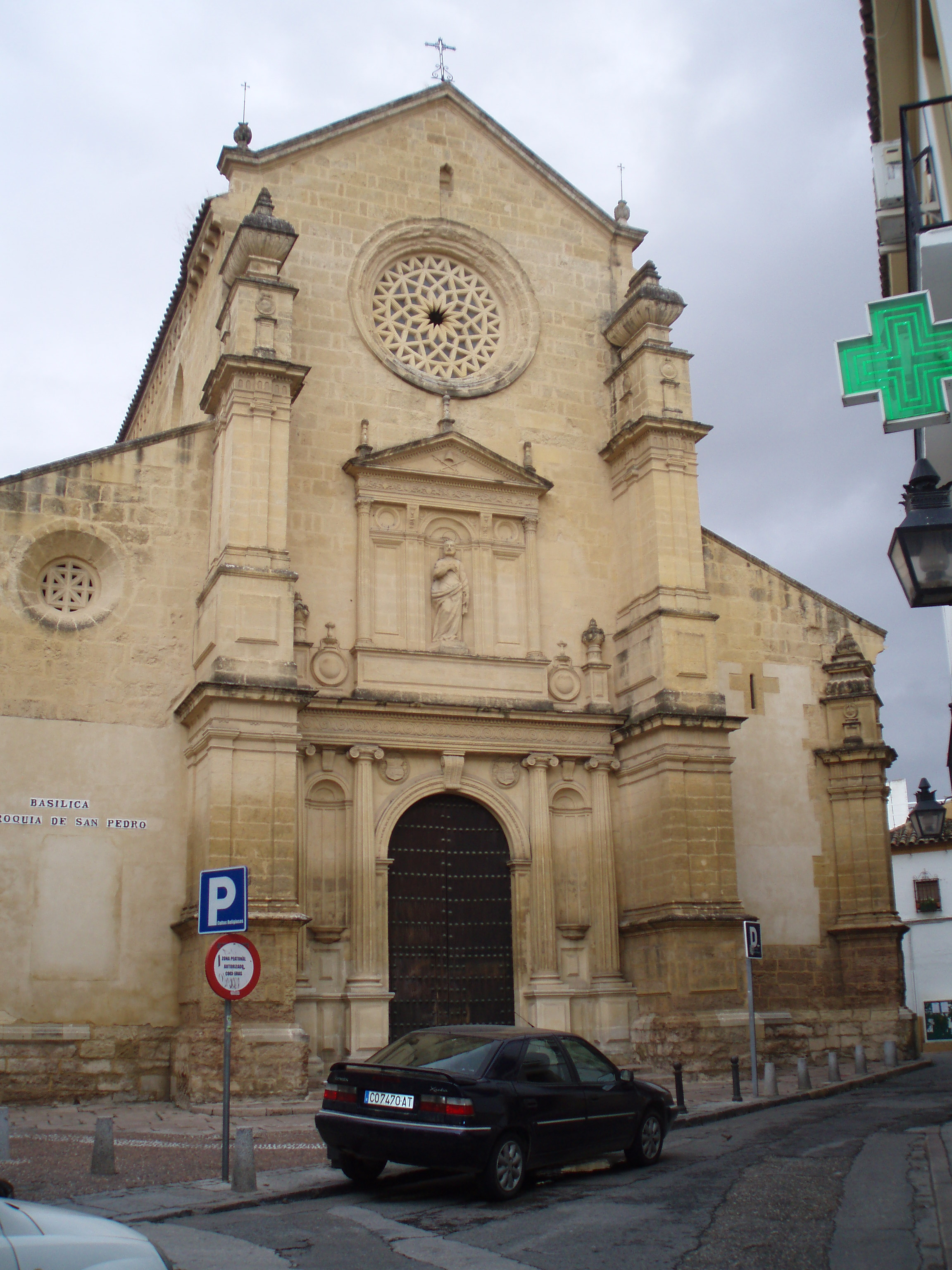 Church of Saint Peter, in the city of Córdoba. (Spain).